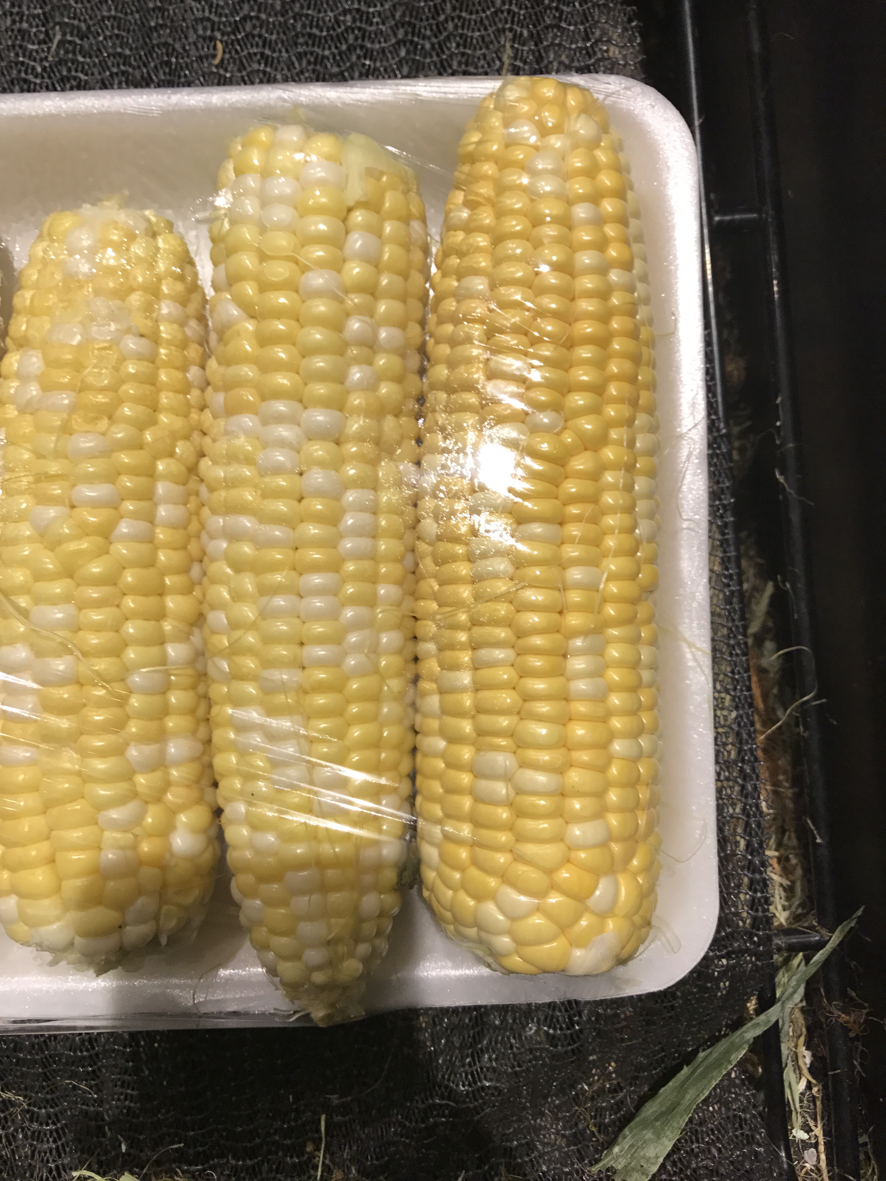 Corn used in veggie burger